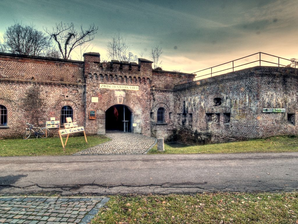 Cologne Fortress "Zwischenwerk VIII b" (Prussian)